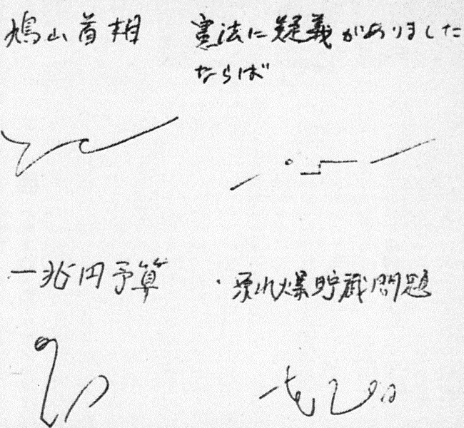 Shugiin-system Shorthand